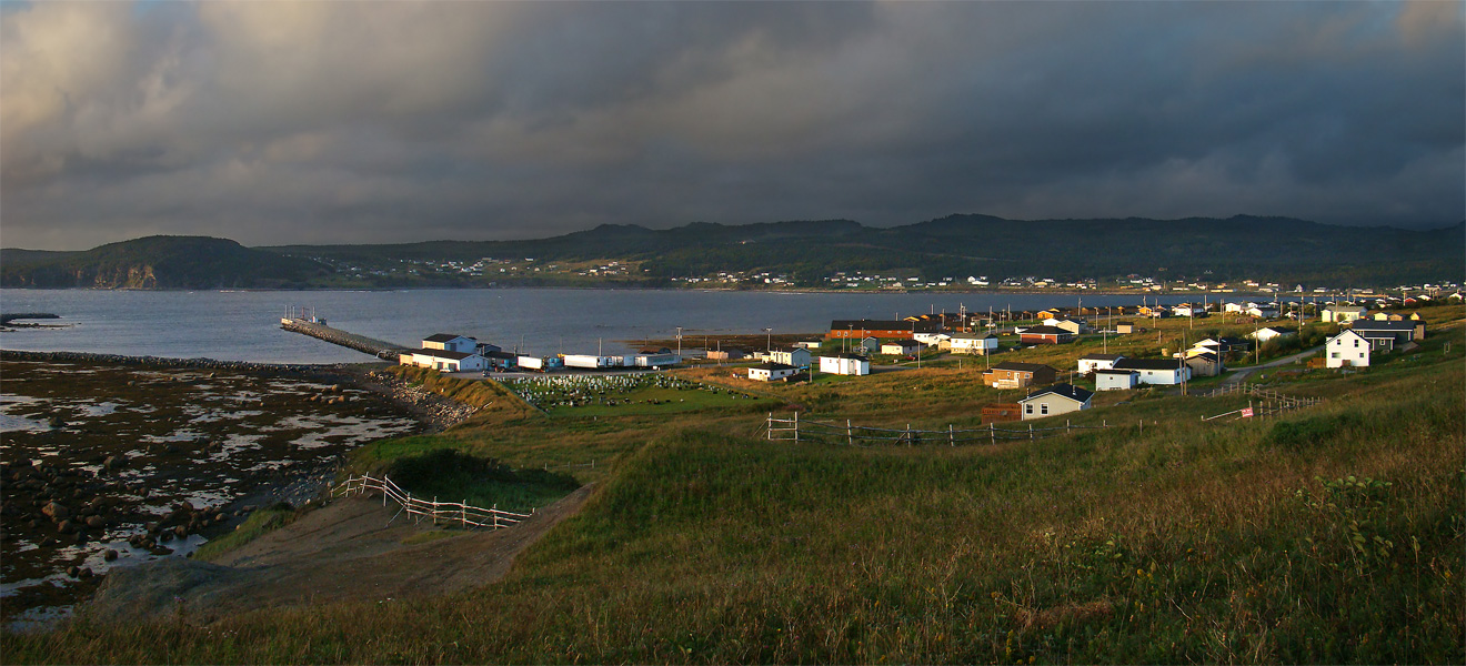 Rocky Harbour, Bonne Bay, Western Newfoundland, Canada. At sunset.